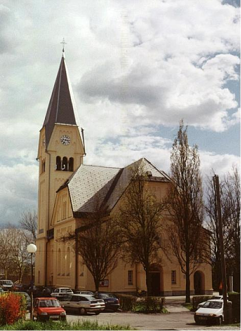 author: Navportus 18:46, 26 June 2007 (UTC) date of photo: 2001description: St. Simon and Jude Thaddeus church, Črnuče, 2001